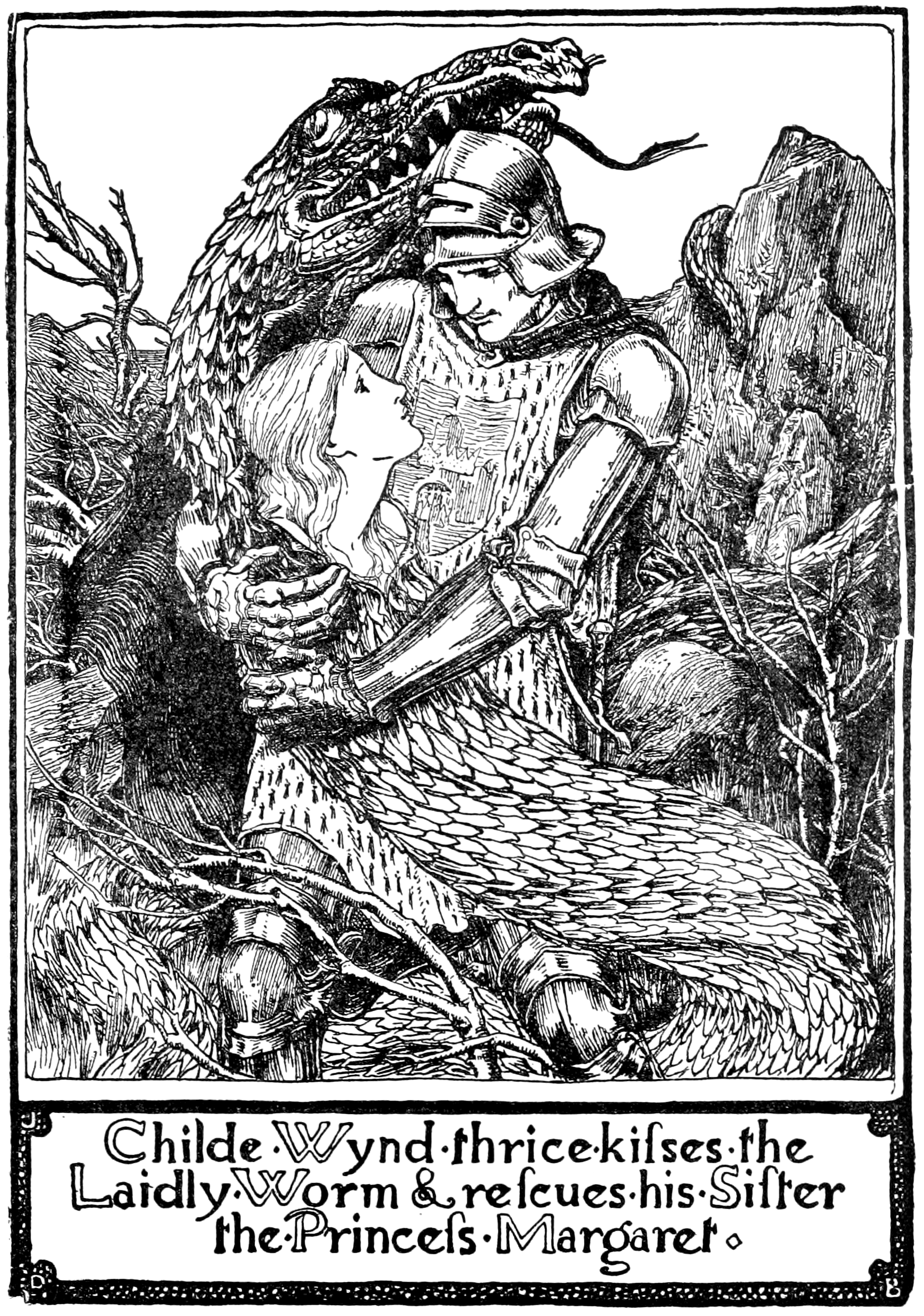 illustration from a book of fairy tales